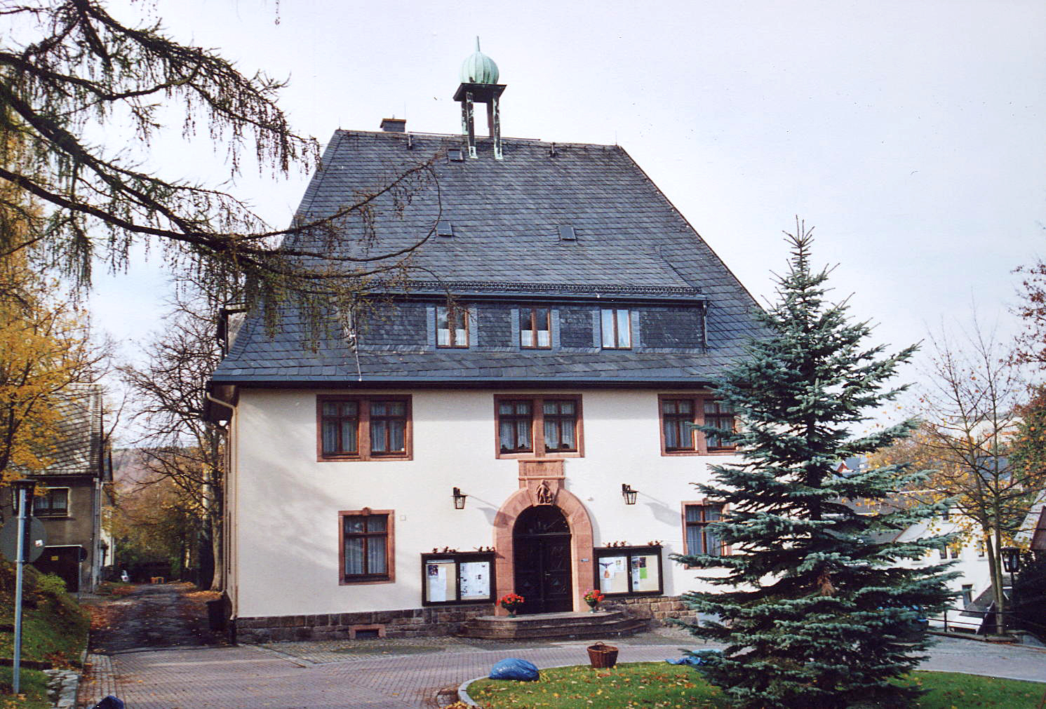 This image shows the townhall in Seiffen in the Ore Mountains in Saxony, Germany.